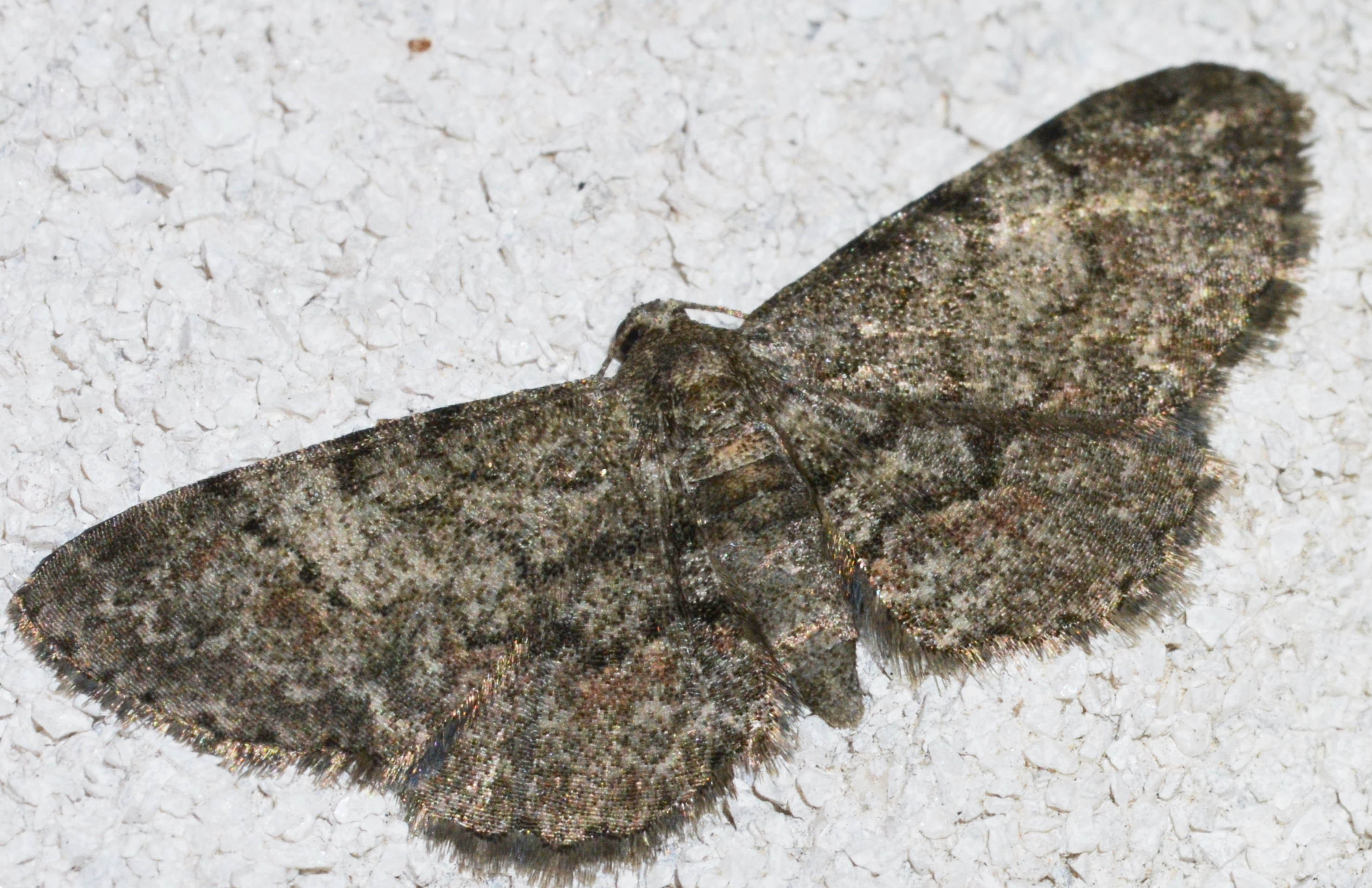 Mothing Night 7/12/14